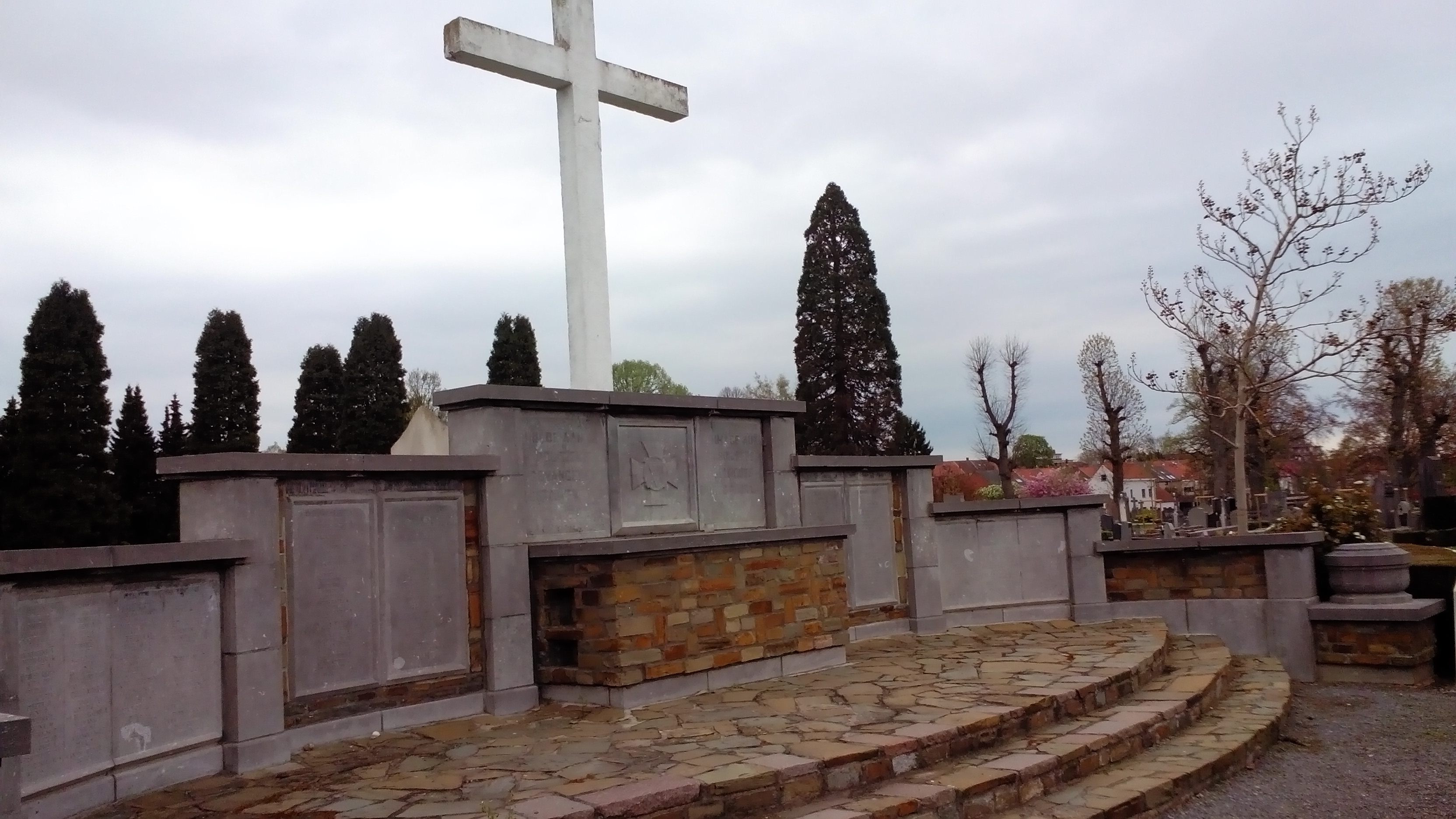 Main cross on cemetary of Leuven